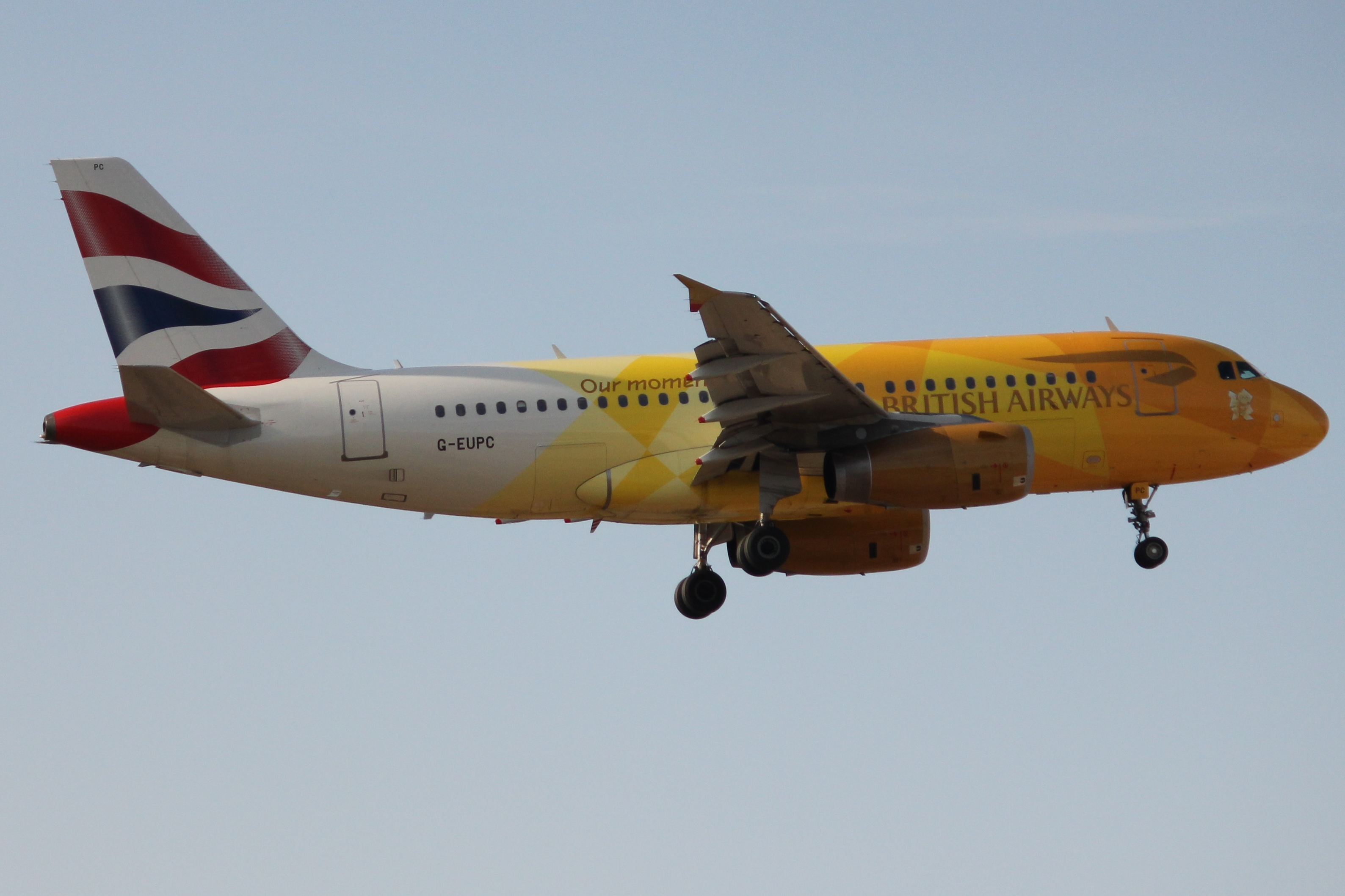 British Airways A319 in Firefly special painting due to the Olympic Games Lonon 2012 approaches Frankfurt intl. Airport.